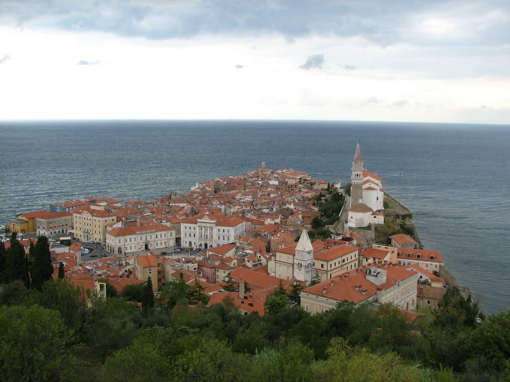 Overview of Piran, Slovenia from its town-walls